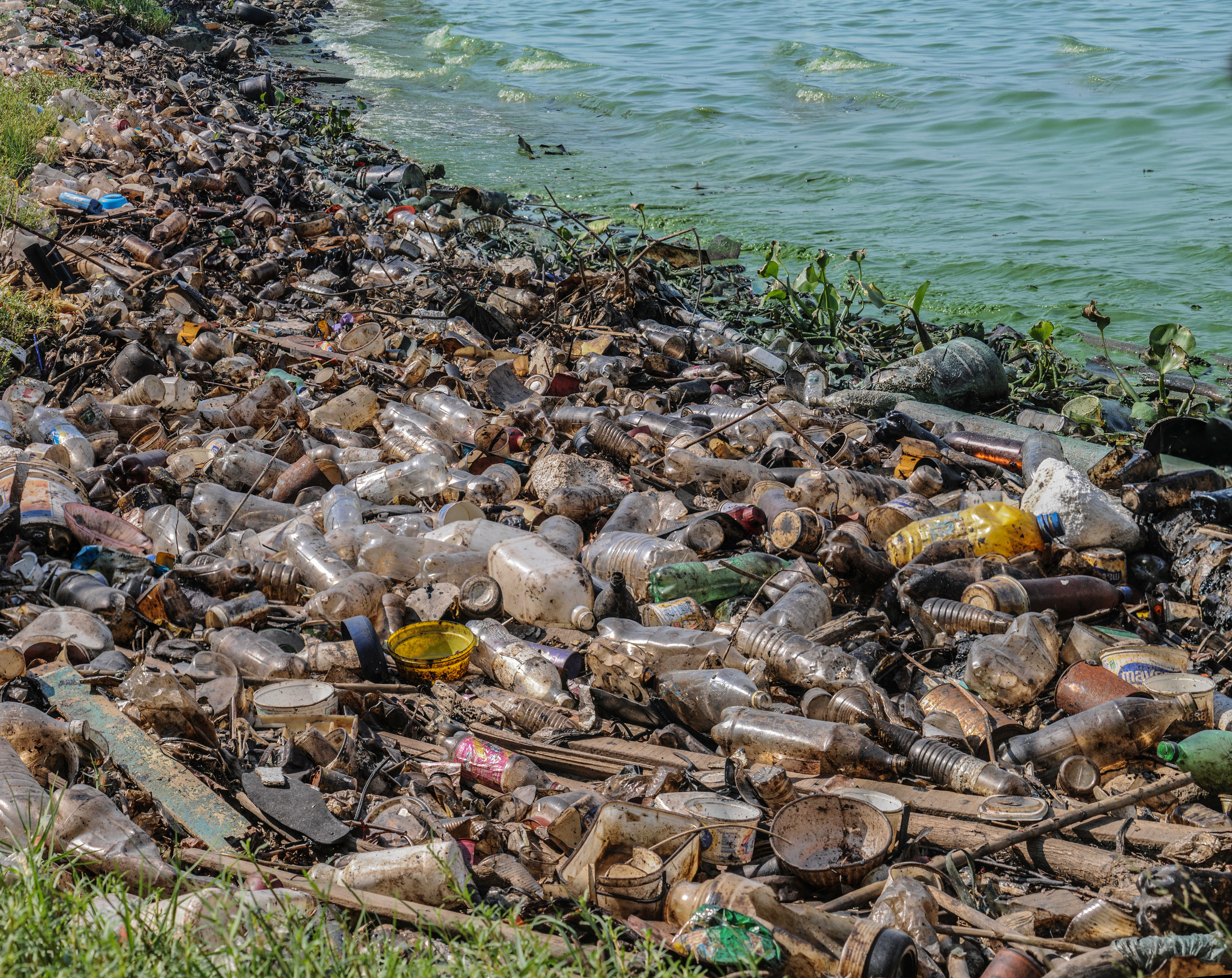 Maracaibo Lake situated in Estado Zulia Venezuela is the biggest lake of South America with an area of 13820 km2[1], it is frequently to look this kind of pollution along of its coasts. It has lemna, oil spill, human waste as main pollutant. The uncontrolled agricultural activities, mining and industrial done in Maracaibo Lake Basin had started a rapid process of eutrophication on this place[2].